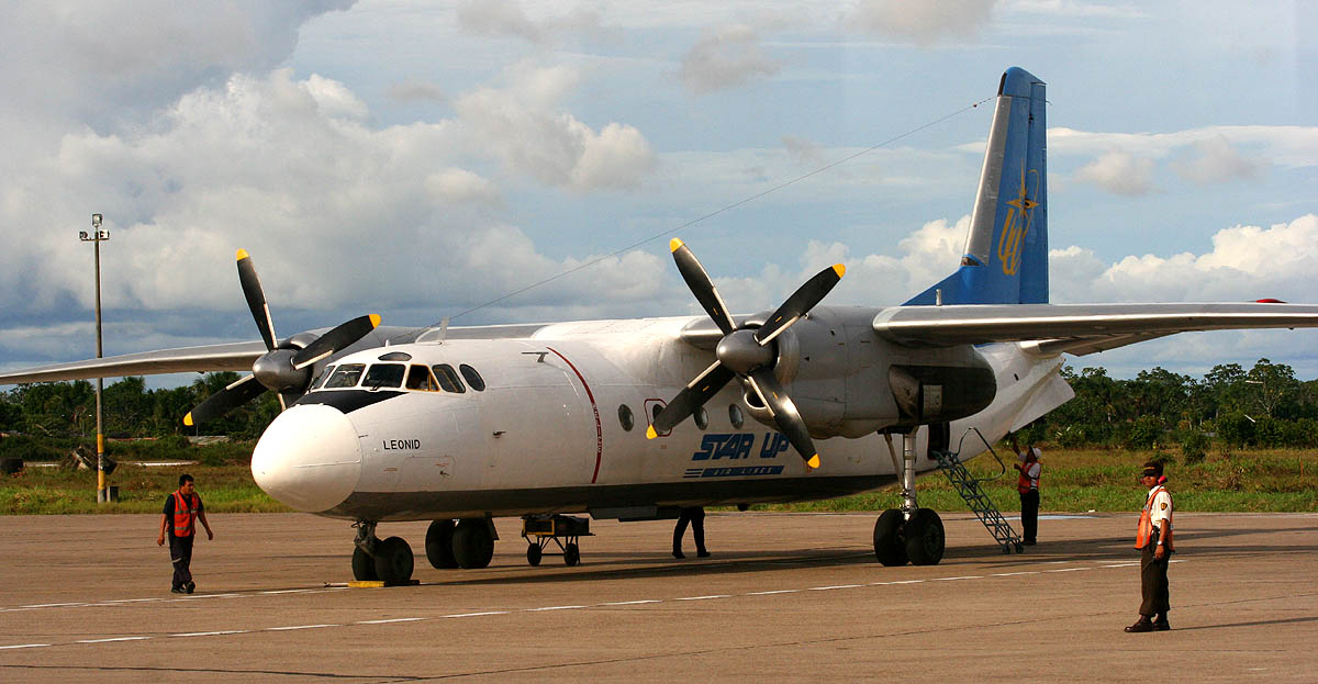 A Star Up Airlines' An-24 in flight preparation at the Iquitos Airport, Peru